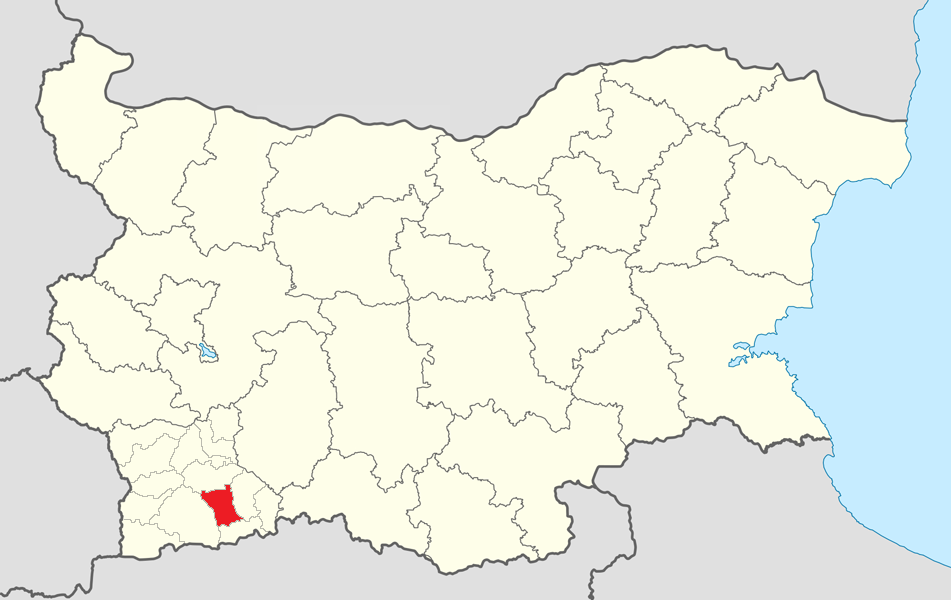 Location map of Gotse Delchev Municipality within Bulgaria and Blagoevgrad province